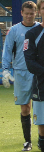 Neil Sullivan. Image cropped from original at flickr.